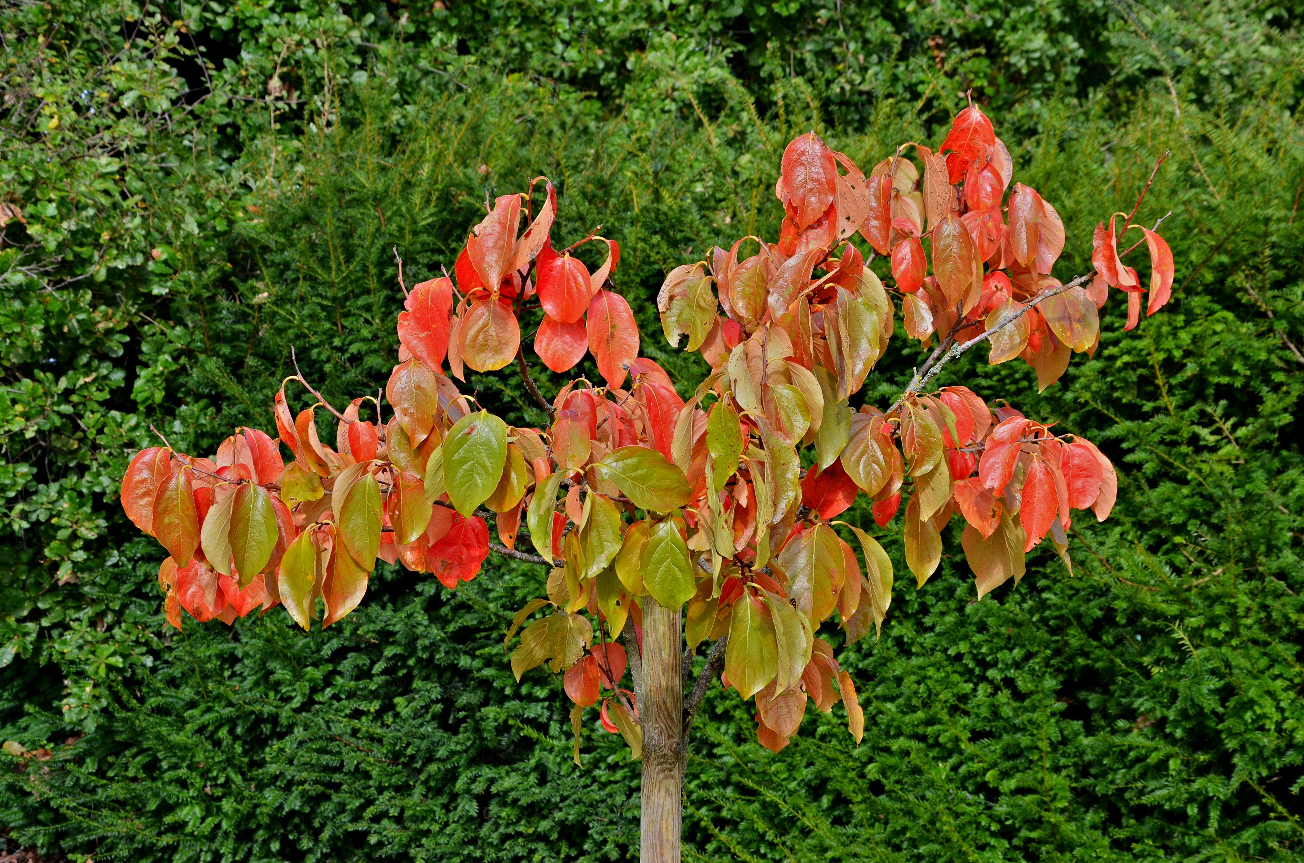 Autumnal foliage of a kaki (Diospyros kaki), in a garden, France.